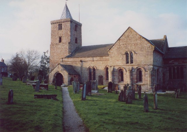 Morland Church. The lower part of the tower of this church is Saxon. The transepts were built c.1225.